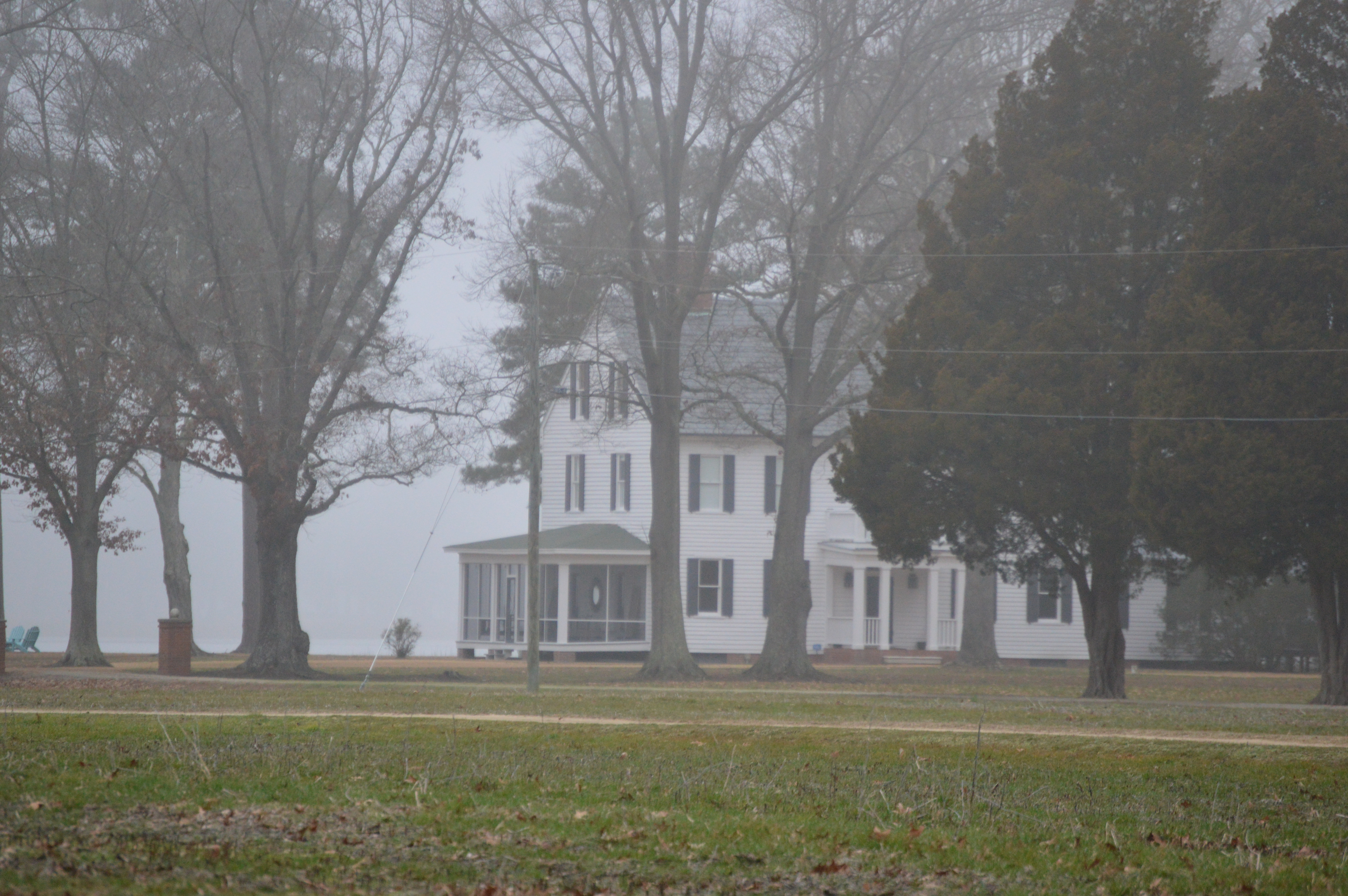 Distant view from Williams Wharf Road of the Riverlawn house, located south of Mathews on the western shore of Mathews County, Virginia, United States. Built in 1874, it is listed on the National Register of Historic Places.